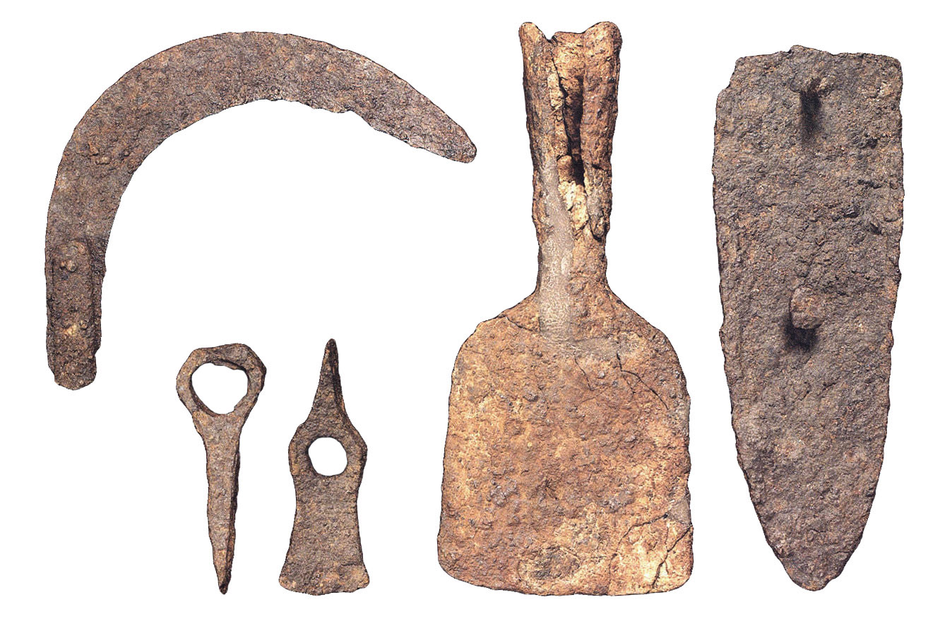 Ancient agricultural tools